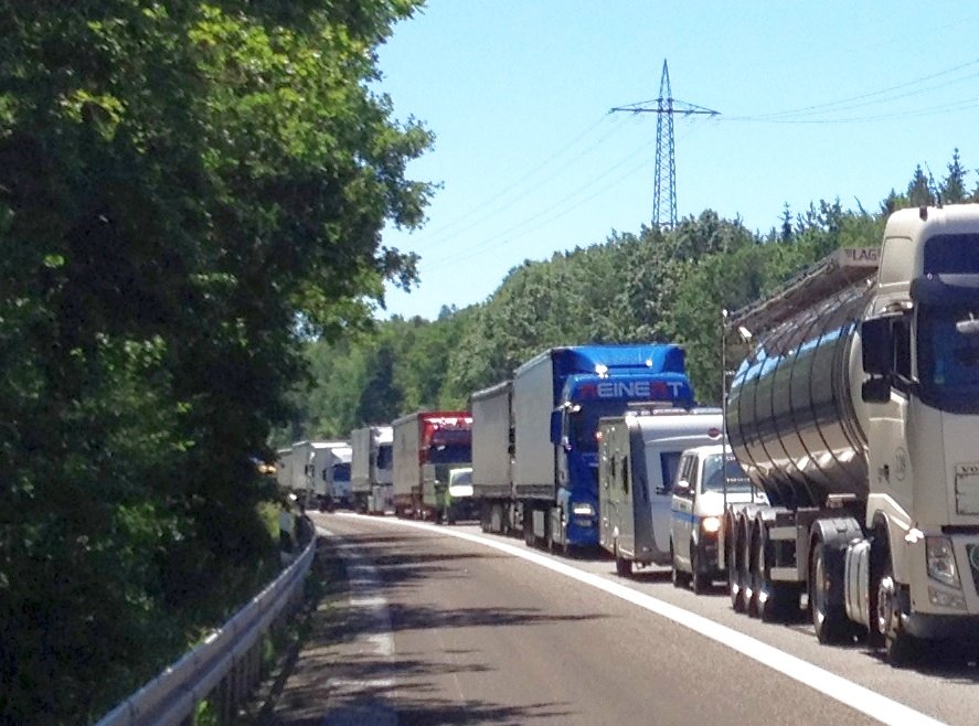 Traffic congestion on the German Autobahn A7 near Fulda; 110 kV traction power line pylon